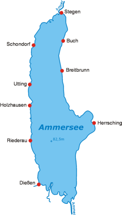 The Lake Ammer in Upper Bavaria. Source: Picture drawn and originally uploaded to Bild:Ammersee.png by Benutzer:Joooo: 18:04, 20. Sep 2004 . . Joooo (Diskussion) . . 252 x 443 (26979 Byte)